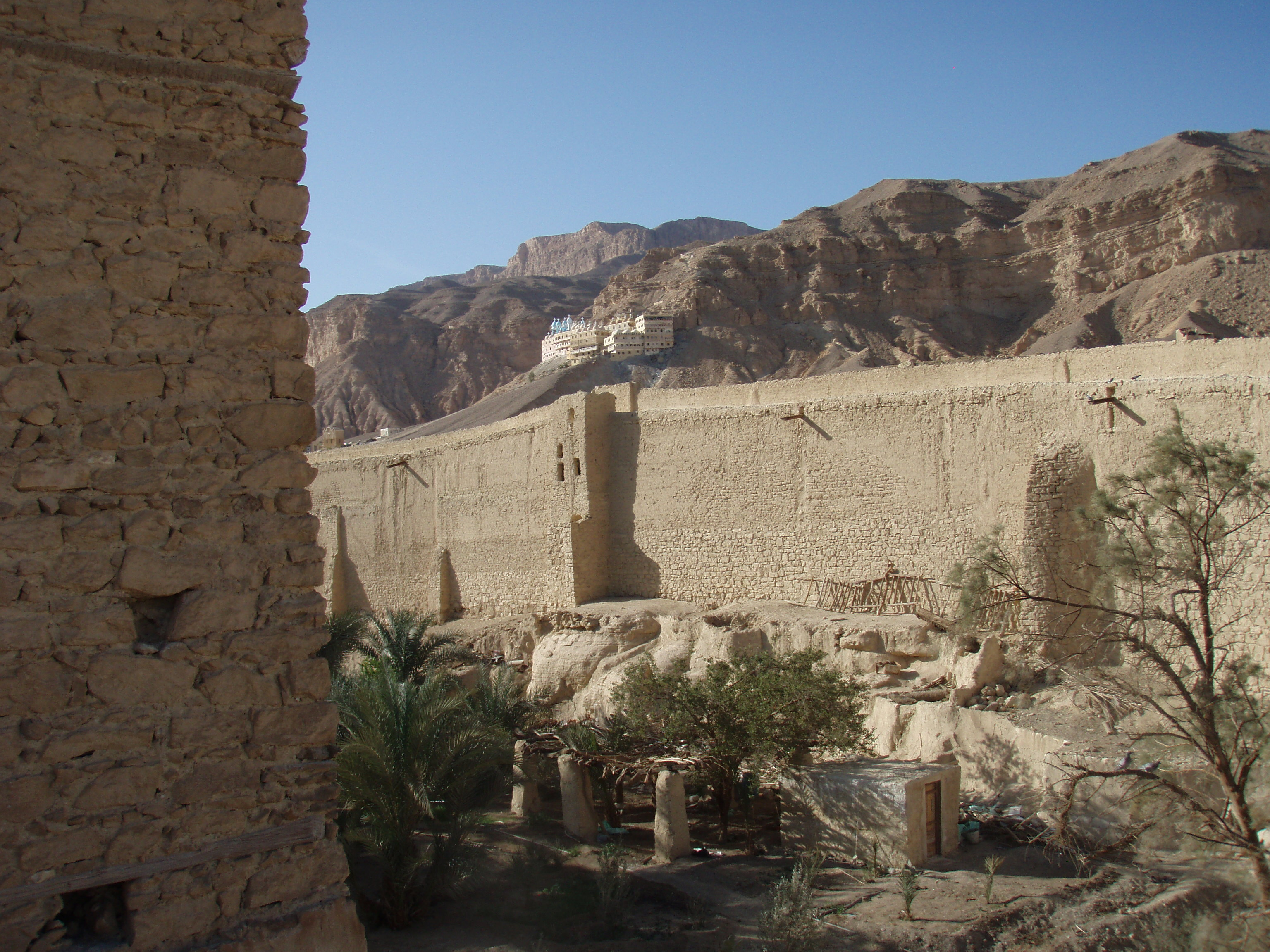 Monastery of Saint Paul the Anchorite